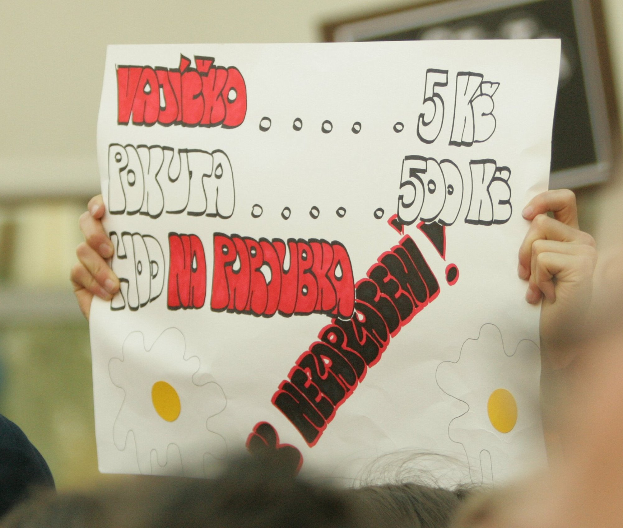 "Egg... 5 Kc, fine...500 Kc, throw on Paroubek...priceless". CSSD objector during rally for European parliament elections 2009, Prague, Andel